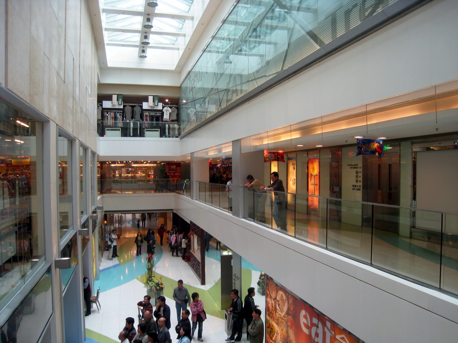 Trend Plaza North Wing Void 屯門時代廣場